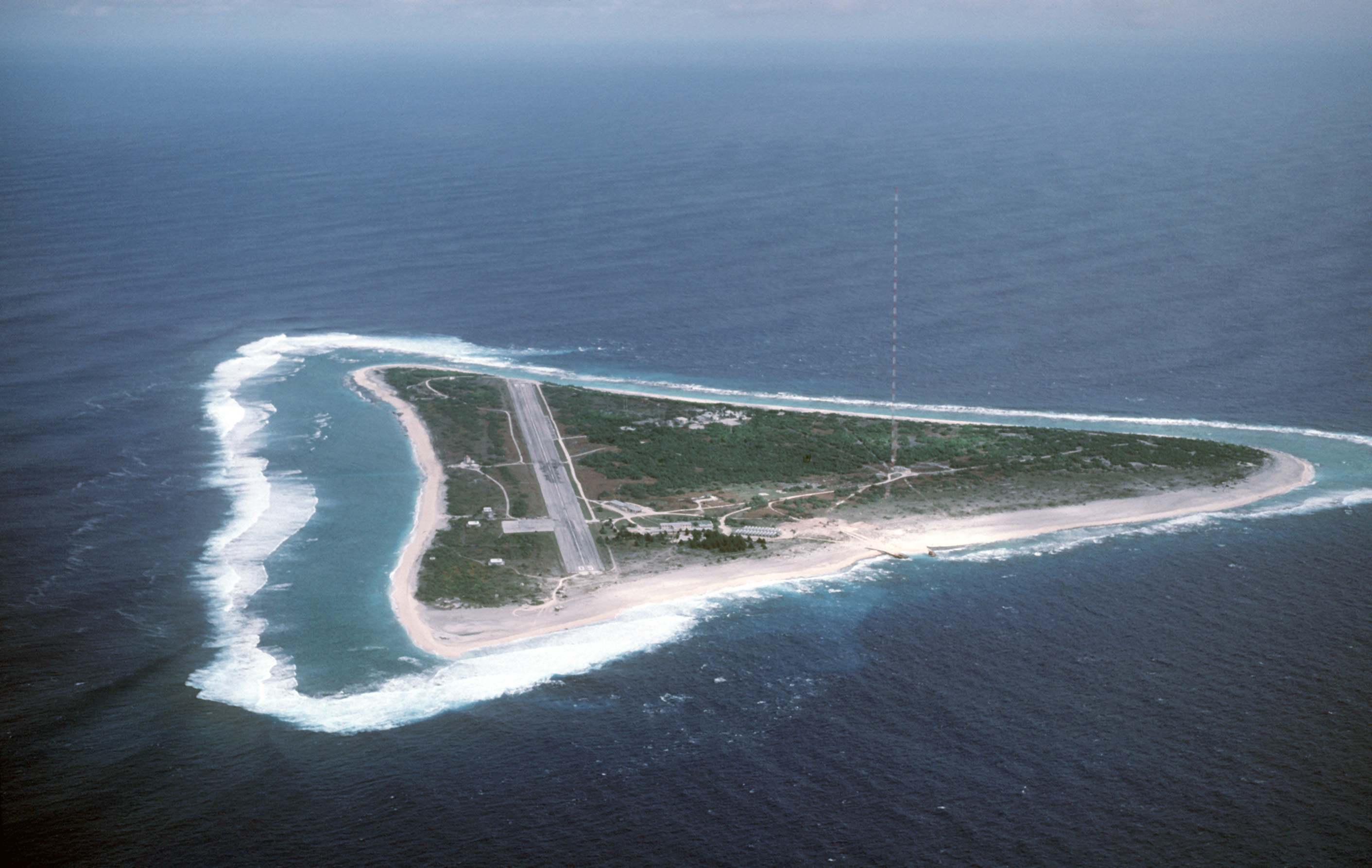 Aerial view of Minamitori Island (Minami-Torishima), Japan. There is a runway which supported the US Coast Guard station located there prior to 1993. Minamitori Island is the easternmost island of the Japanese archipelago.